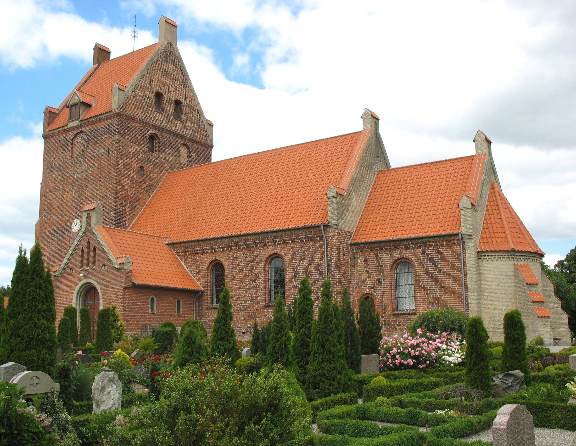 The church "Væggerløse Kirke" in the small town "Væggerløse" located on the island Falster in east Denmark.